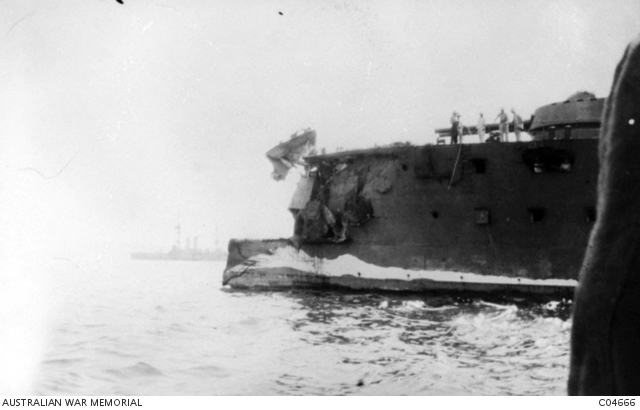 The damaged bow of the French armored cruiser Kléber after her collision with HMT Boorara